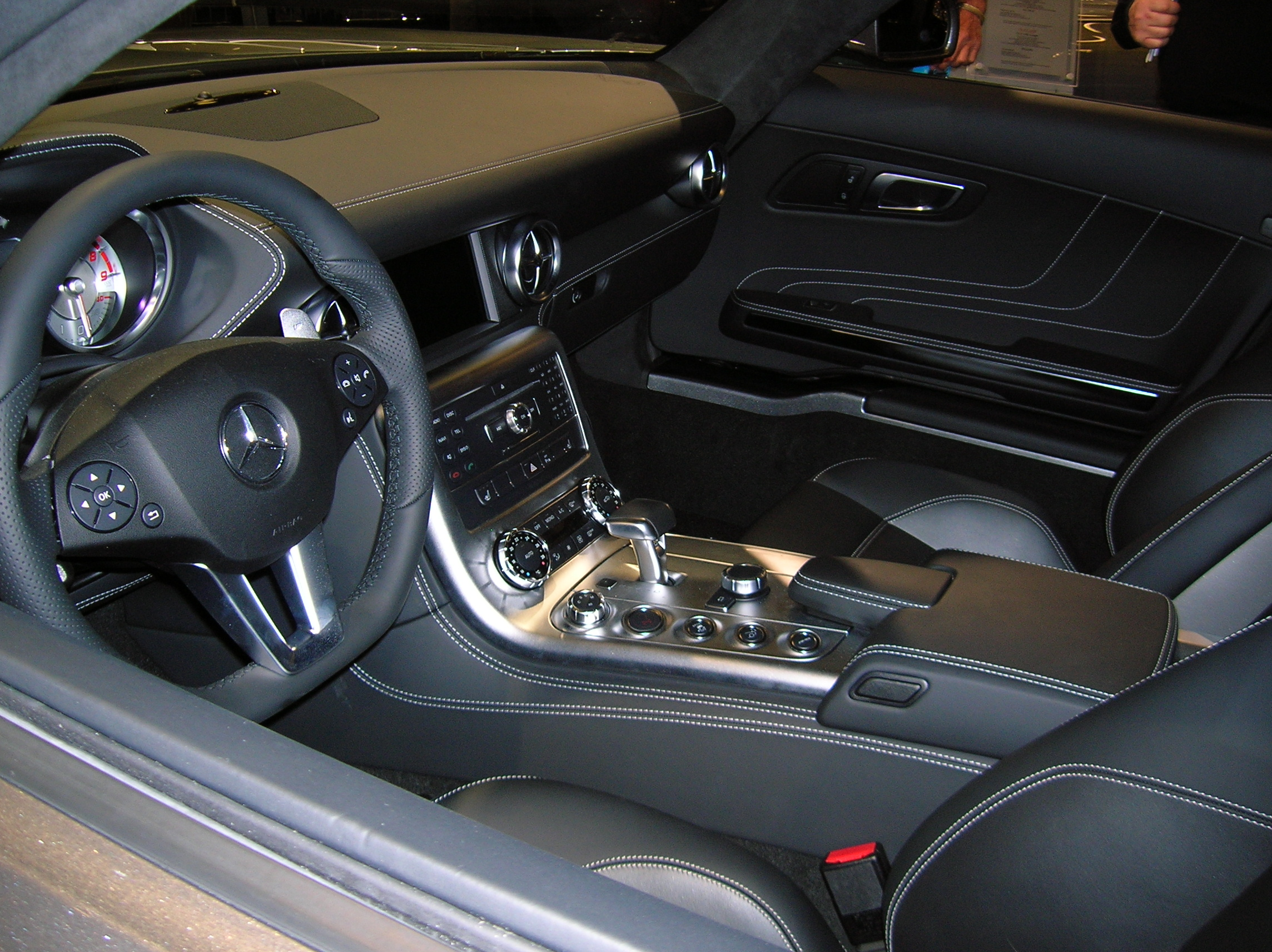 Mercedes SLS AMG interior